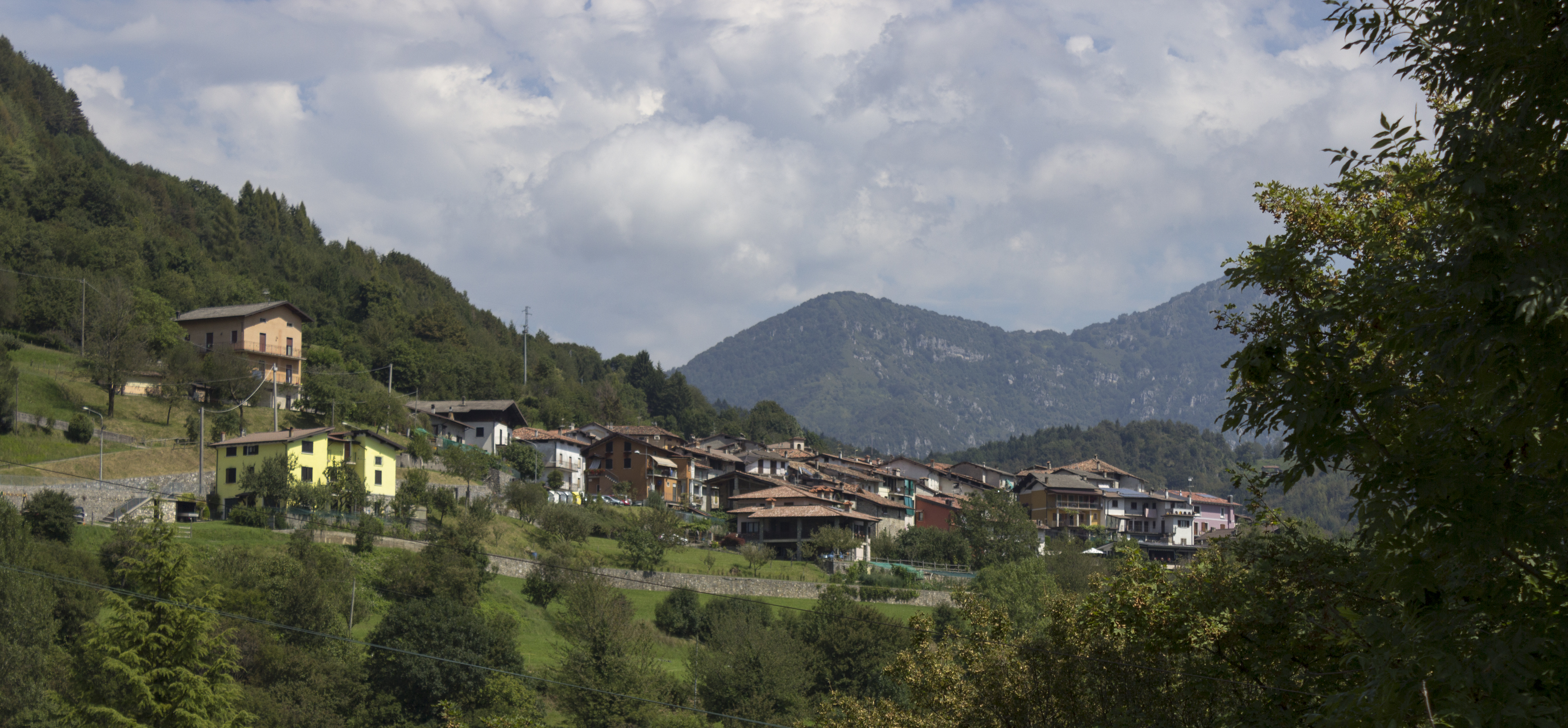 View on Vico, Treviso Bresciano.